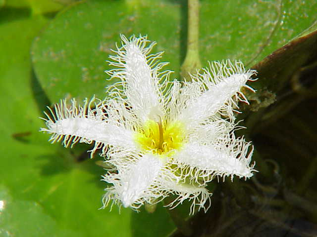 Species: Nymphoides indica Family: Menyanthaceae Image No. 4